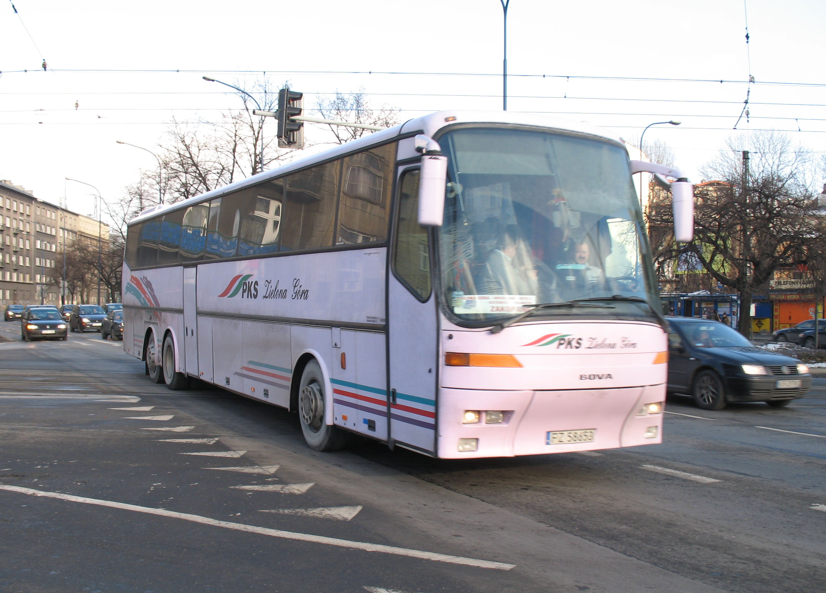 Bova Futura FHD 15 coach in Kraków, Poland. Built 1999, PKS Zielona Góra operator.